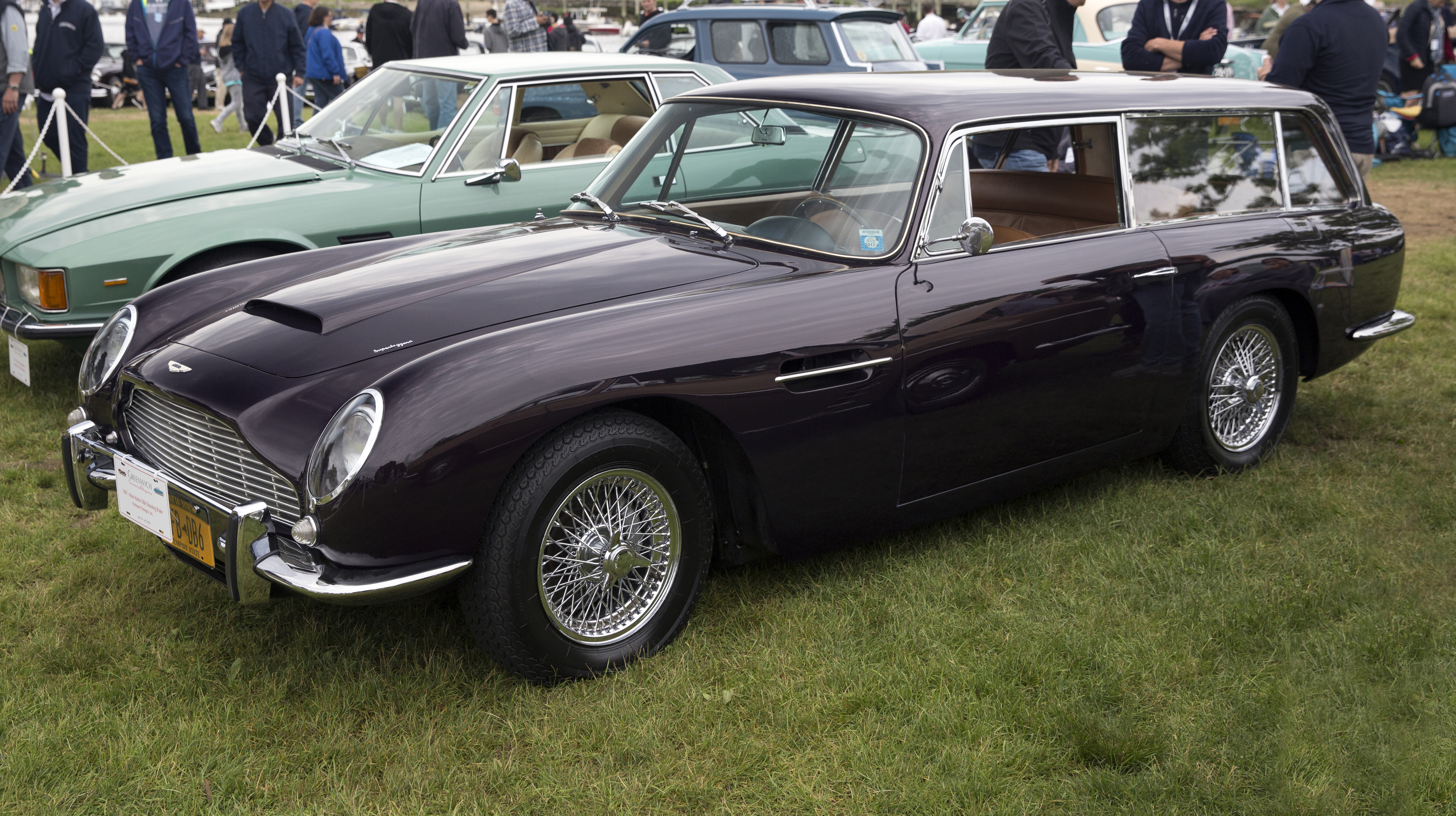 A 1967 Aston Martin DB6 shooting brake at the 2018 Greenwich Concours d'Elegance. Roman Purple over Natural hide, LHD with factory AC, Borg-Warner automatic gearbox, LSD, Blaupunkt Köln radio with power antenna, this was the 1967 New York Auto Show car. One of six Radford-built DB6 Shooting Brakes, it was purchased directly off the show stand by a Mr. S. Tananbaum for $22,500 (nearly 3x the price of a standard DB6), whose family maintained ownership until 2017.